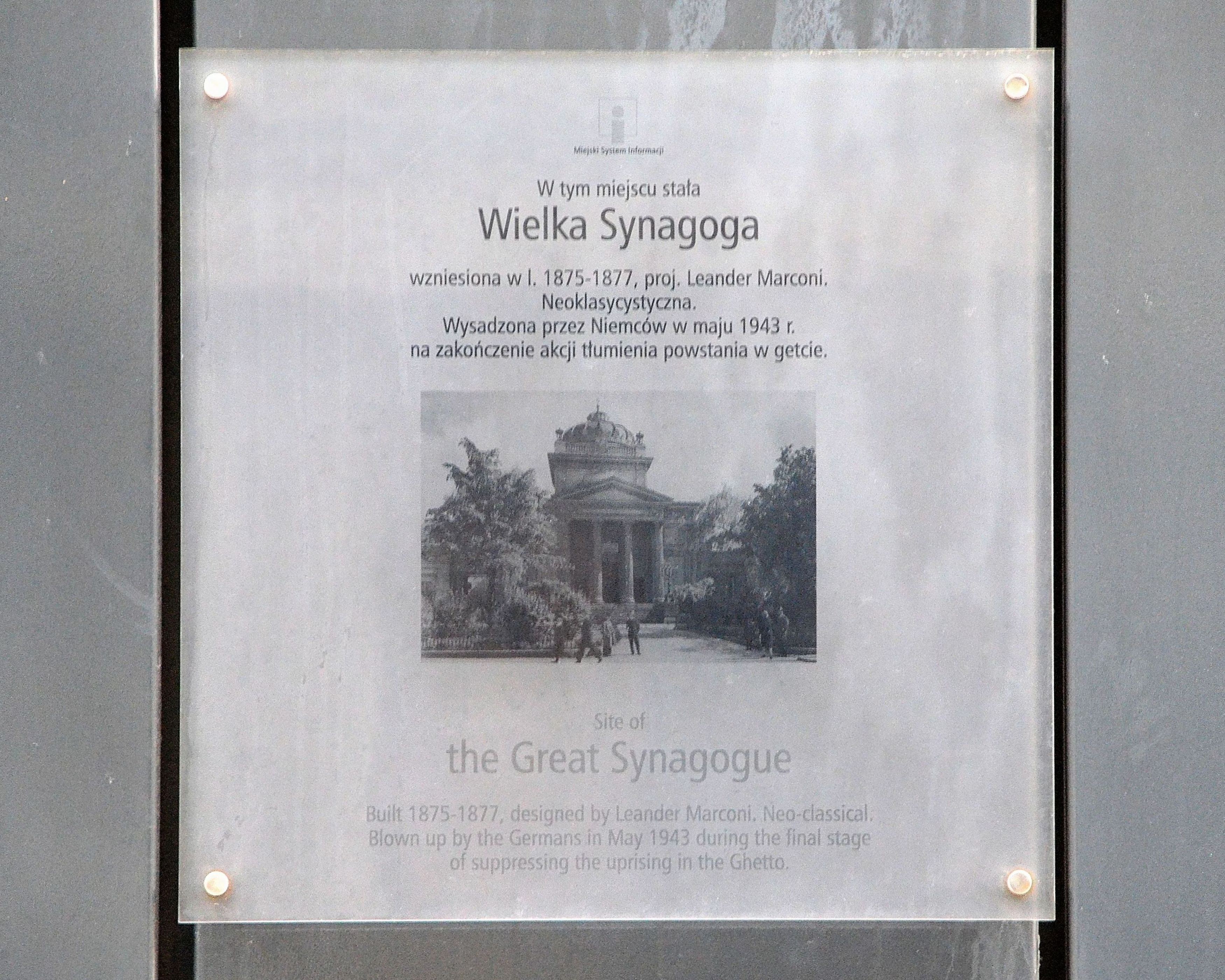 A MIS (City Information System) plaque commemorating the Great Synagogue on the facade of the Blue Skycraper (from Tłomackie Street side)